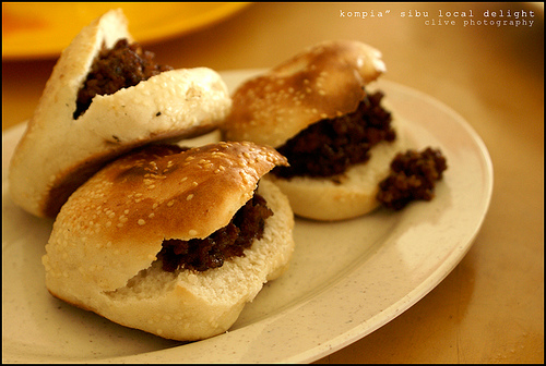 Kom Biang a Foochow delicacy in Sibu